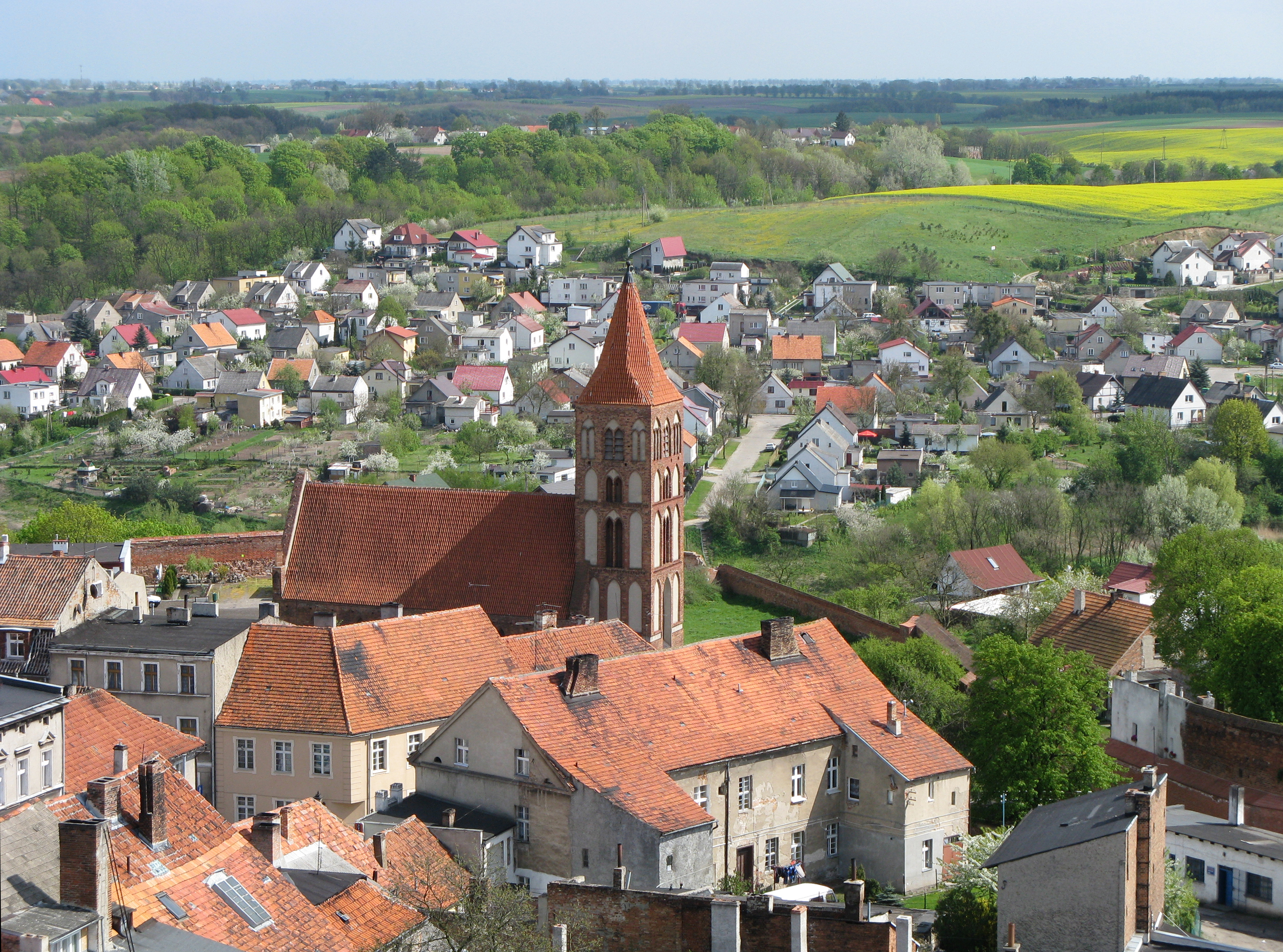 Church of the Holy Spirit in Chełmno